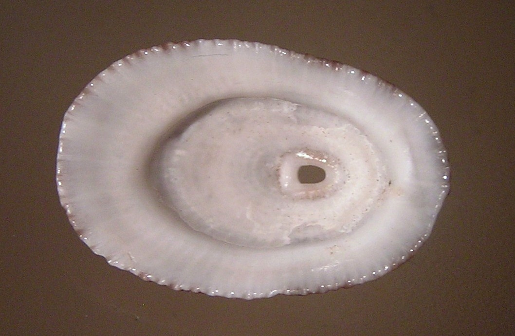 Diodora lineata Sowerby, 1835; a sea snail from the family Fissurellidae; Australia